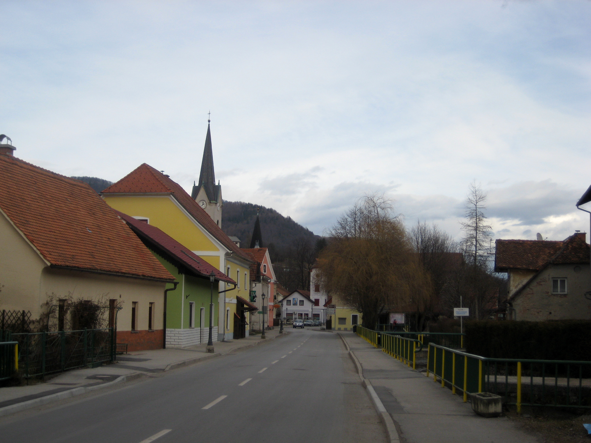 Vransko, town in Slovenia